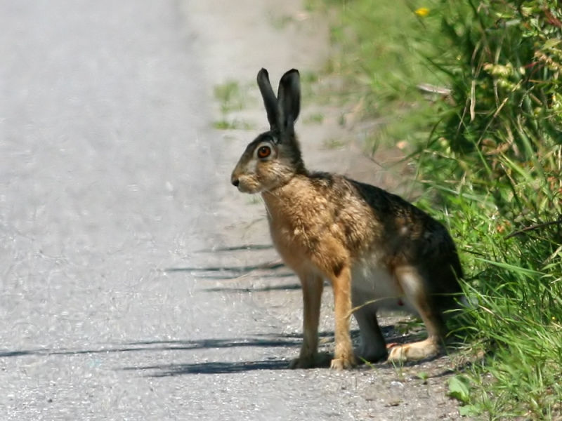 Brown Hare (Lepus europaeus)